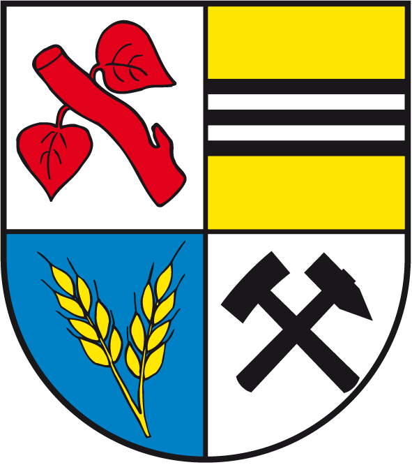 Coat of arms of Harbke